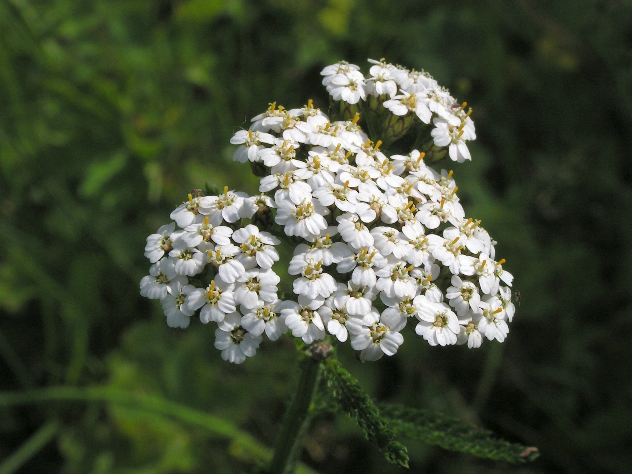 Inflorescence of Common yarrow. Moscow region, Russia.